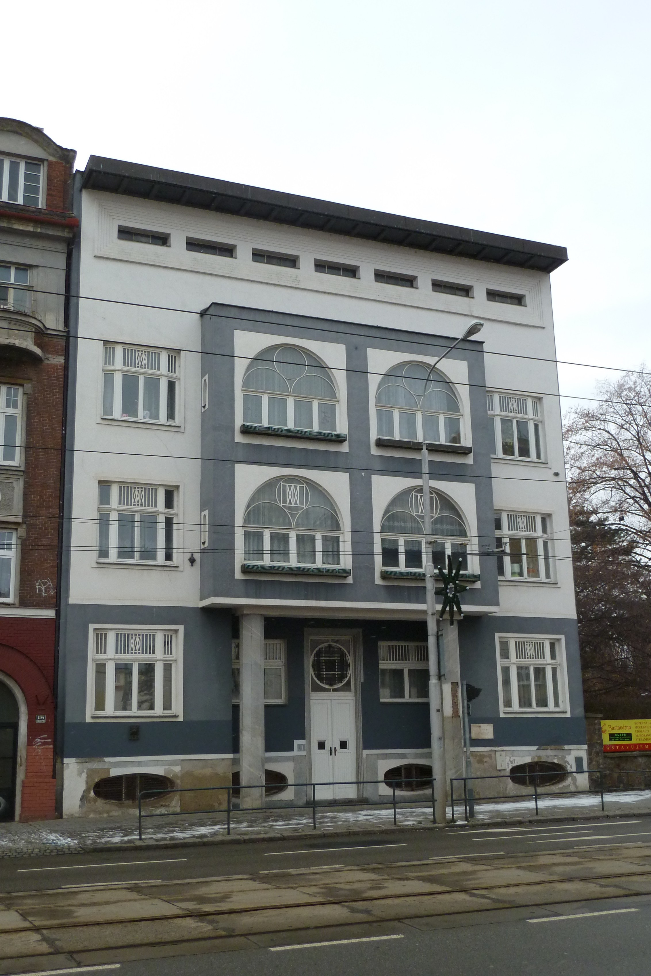 Jaruseks apartment house by Josef Gocar in Brno